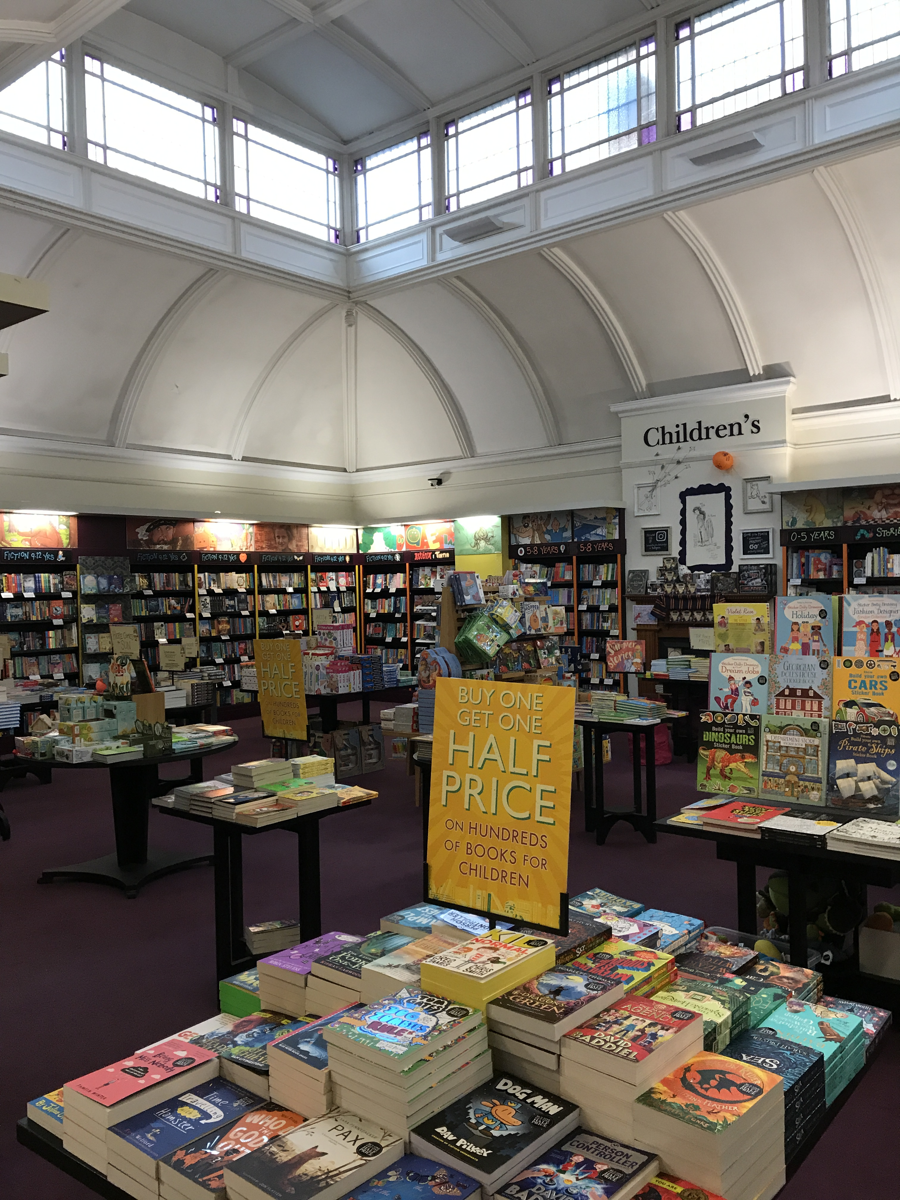 Waterstones Reading Broad Street Kids department